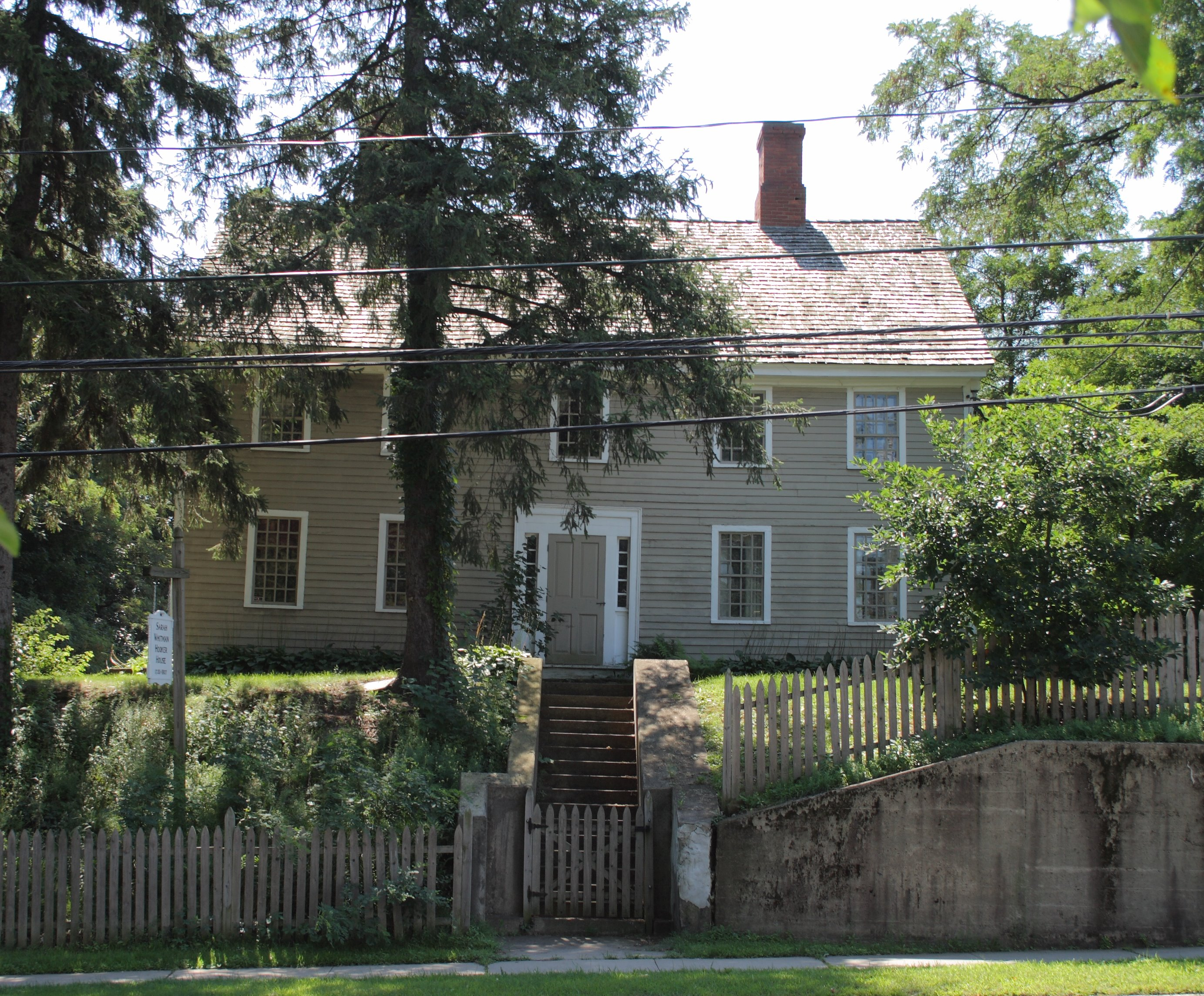 The Sarah Whitman Hooker House, 1237 New Britain Ave., a Registered Historic Place in West Hartford, Connecticut